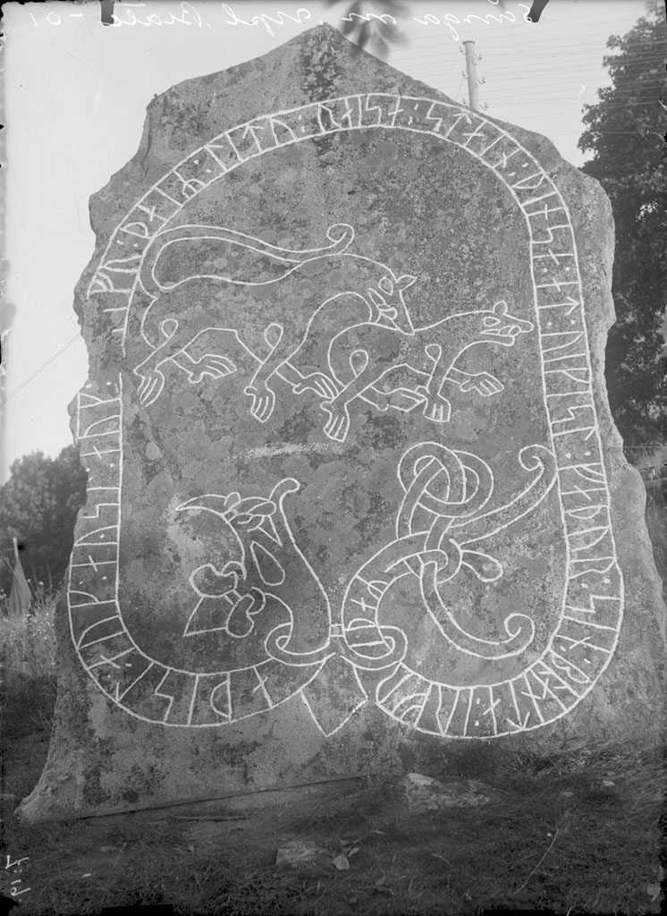 Rune stone (U 35) in Svartsjö. The inscription says: "Adils and Ösel and Olov they had this stone carved in memory of Vigisl, their father, the husband of Ärnfrid."